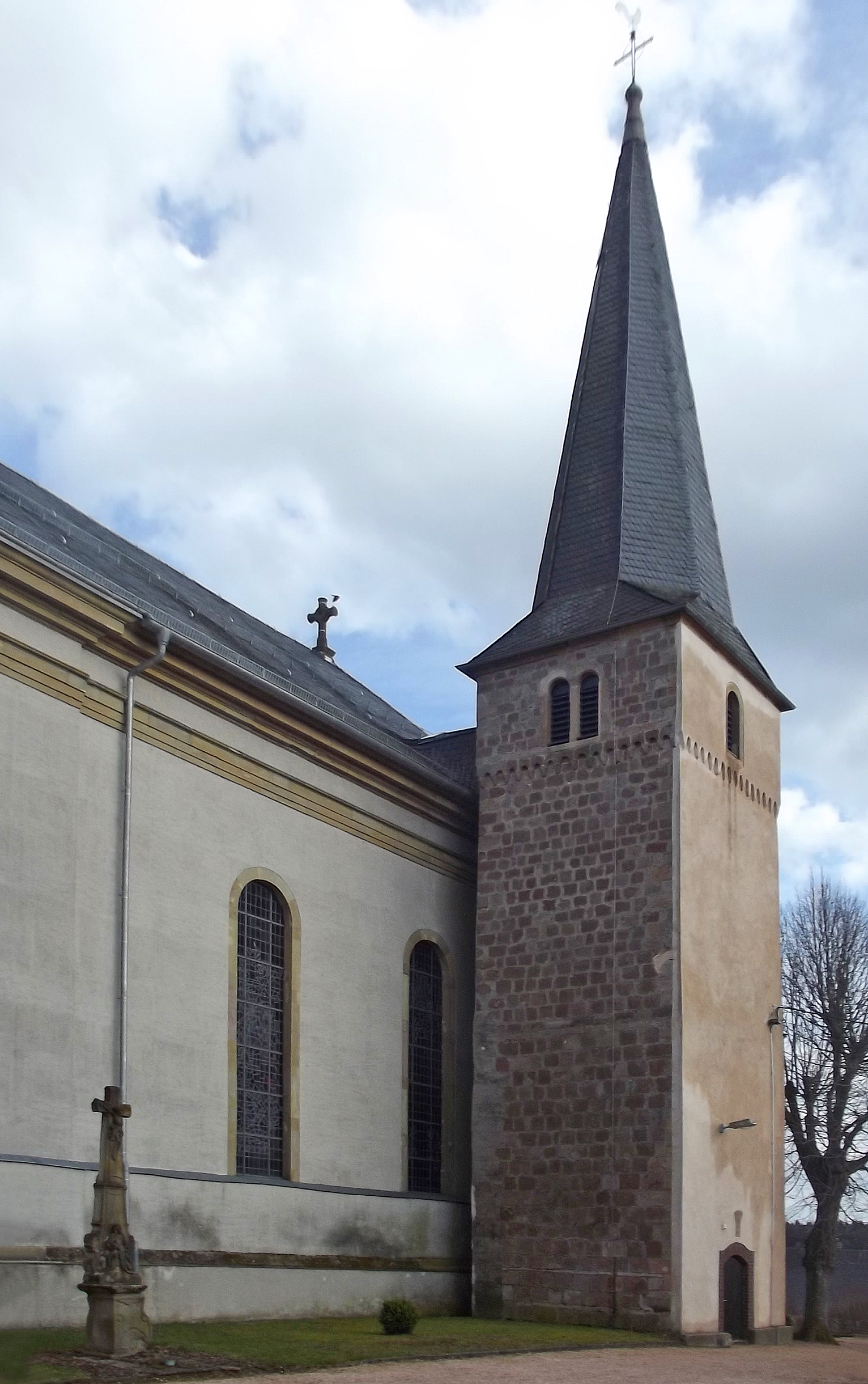 Exterior of the roman catholic church in Neunkirchen (Nahe), Saarland